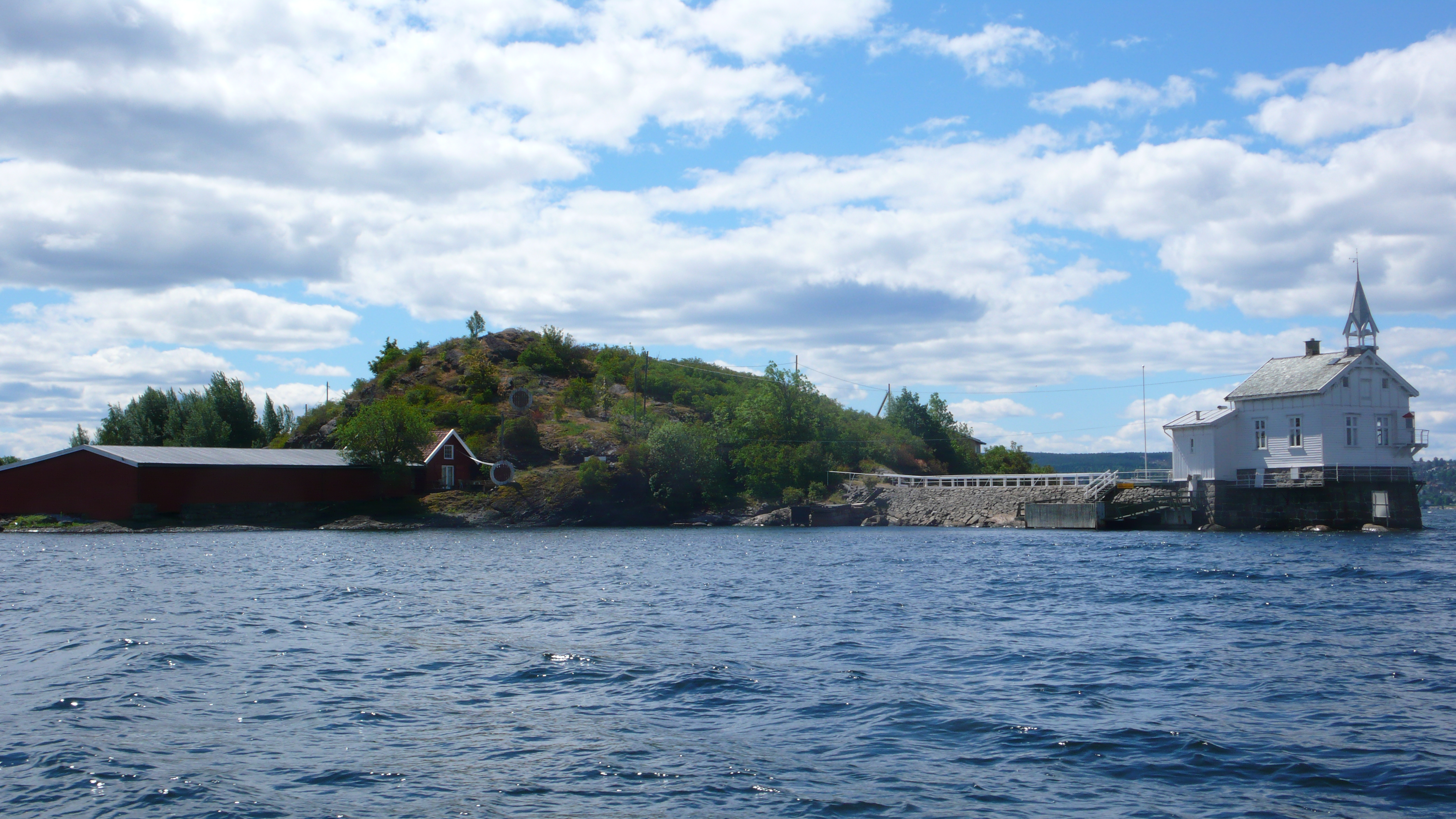 Heggholmen light house